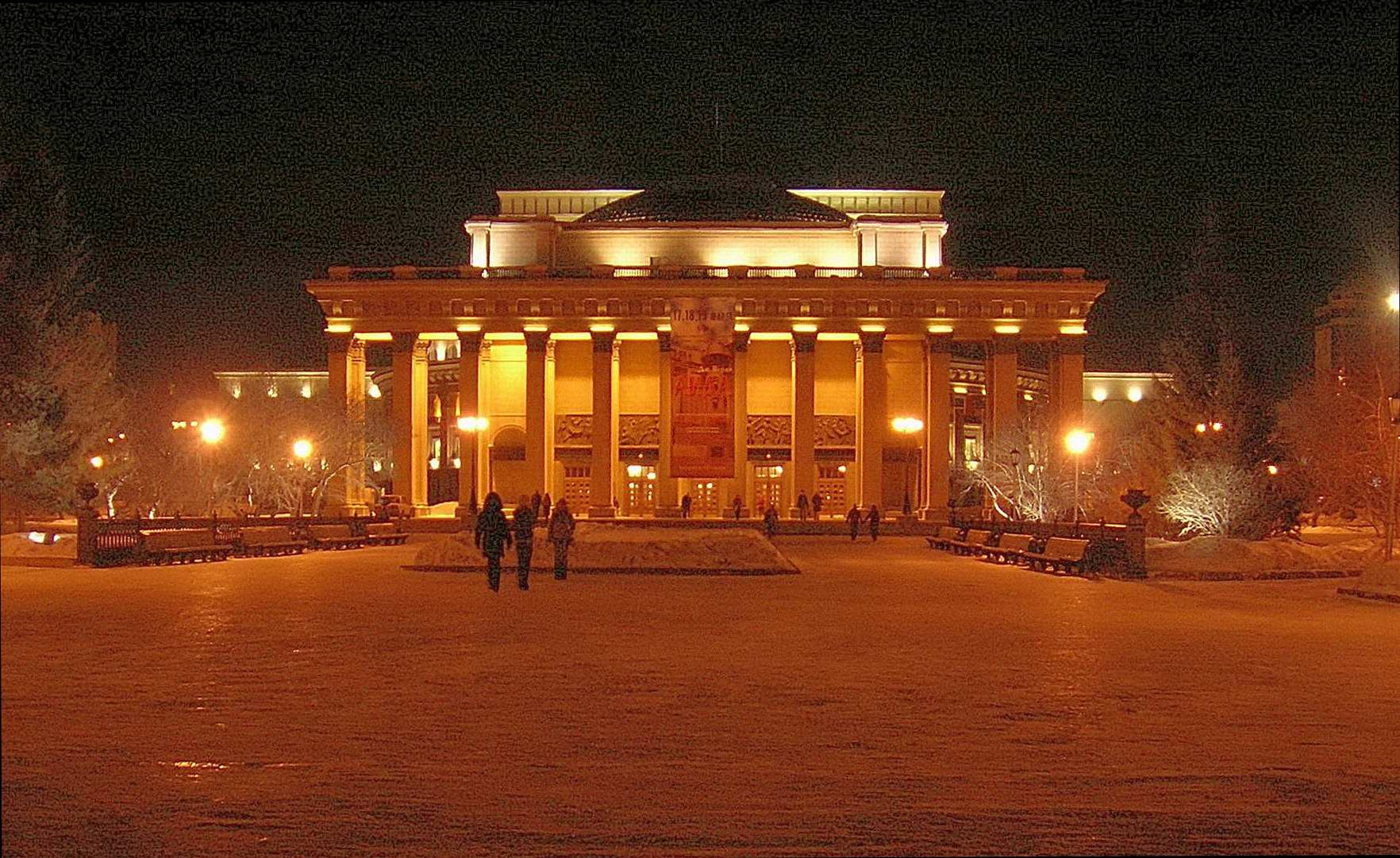 Opera and ballet theatre, Novosibirsk